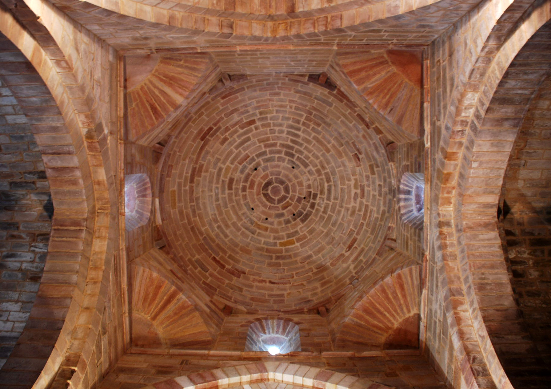 View of the dome on Church of the Monastery of Santa María la Real de Mave (Palencia, Castile-Leon, Spain). It is a romanesque church at the beginning of the transition, built between the years 1200 and 1208. In one of the blocks of hastial there is an inscription, with the date of 1200, in years of this era. There are three naves of three tranches each cruise, not pointed out in plant and triple header of semicircular apses preceded by tranche presbyterial straight. The most striking is the presence of vaults of canyon pointed perpendicular to the axis of normal temple, both in the ends of the cruise as in the first two tranches of the ship south. The “crucero” is occupied by the hemispherical dome on octagonal “linterna” chronic “trompas” with smooth “trompillones” sawn in the image. The style denotes a great influence burgundy, in its original structure of ships side with vaults of canyon of axis normal at the temple, which was introduced by the cistercians. It is very similar to the church of Neris (Allier).